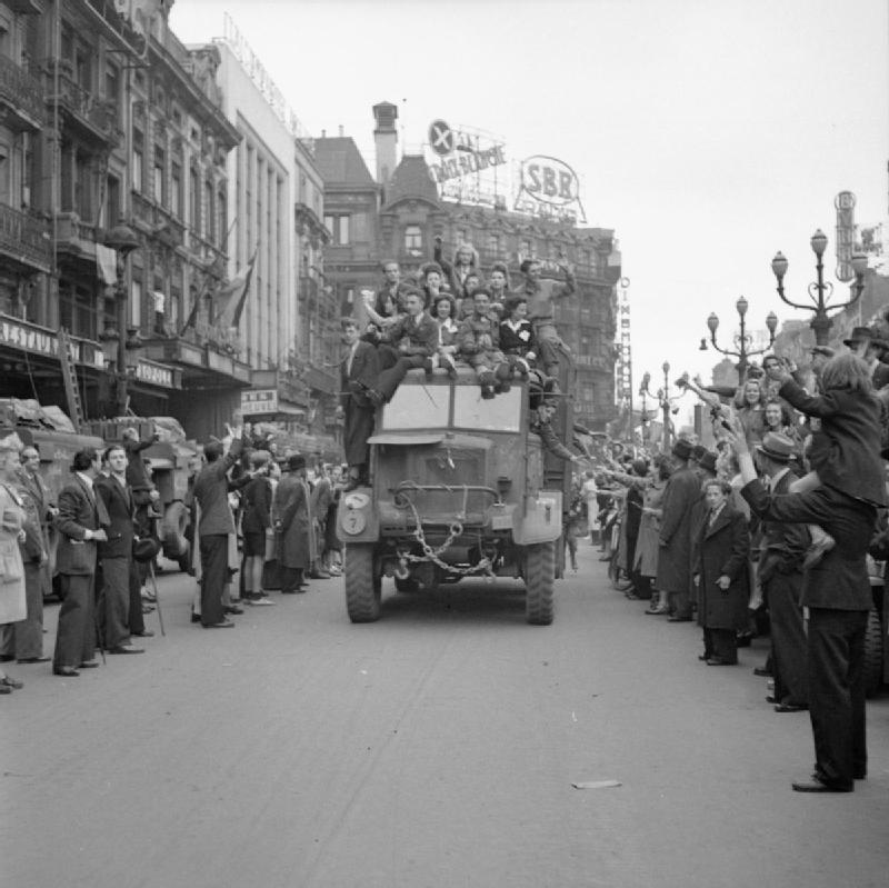 The British Army in North-west Europe 1944-45 Scenes of jubilation as British troops liberate Brussels, 4 September 1944.